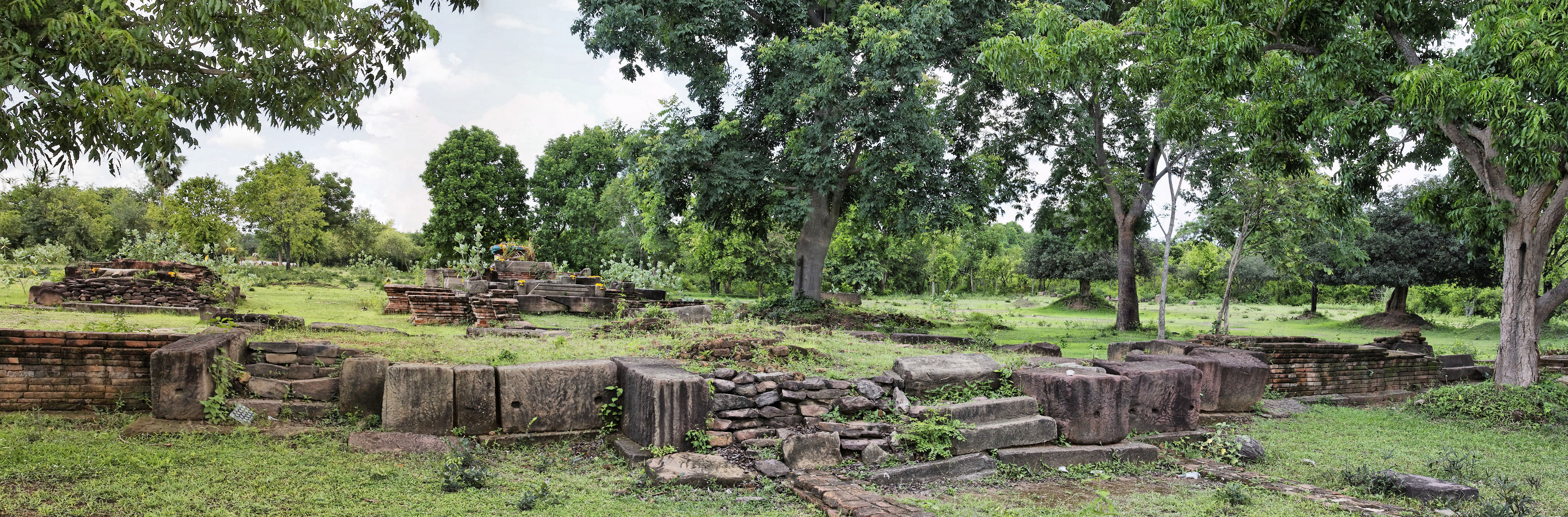 Muang Sema, Thailand